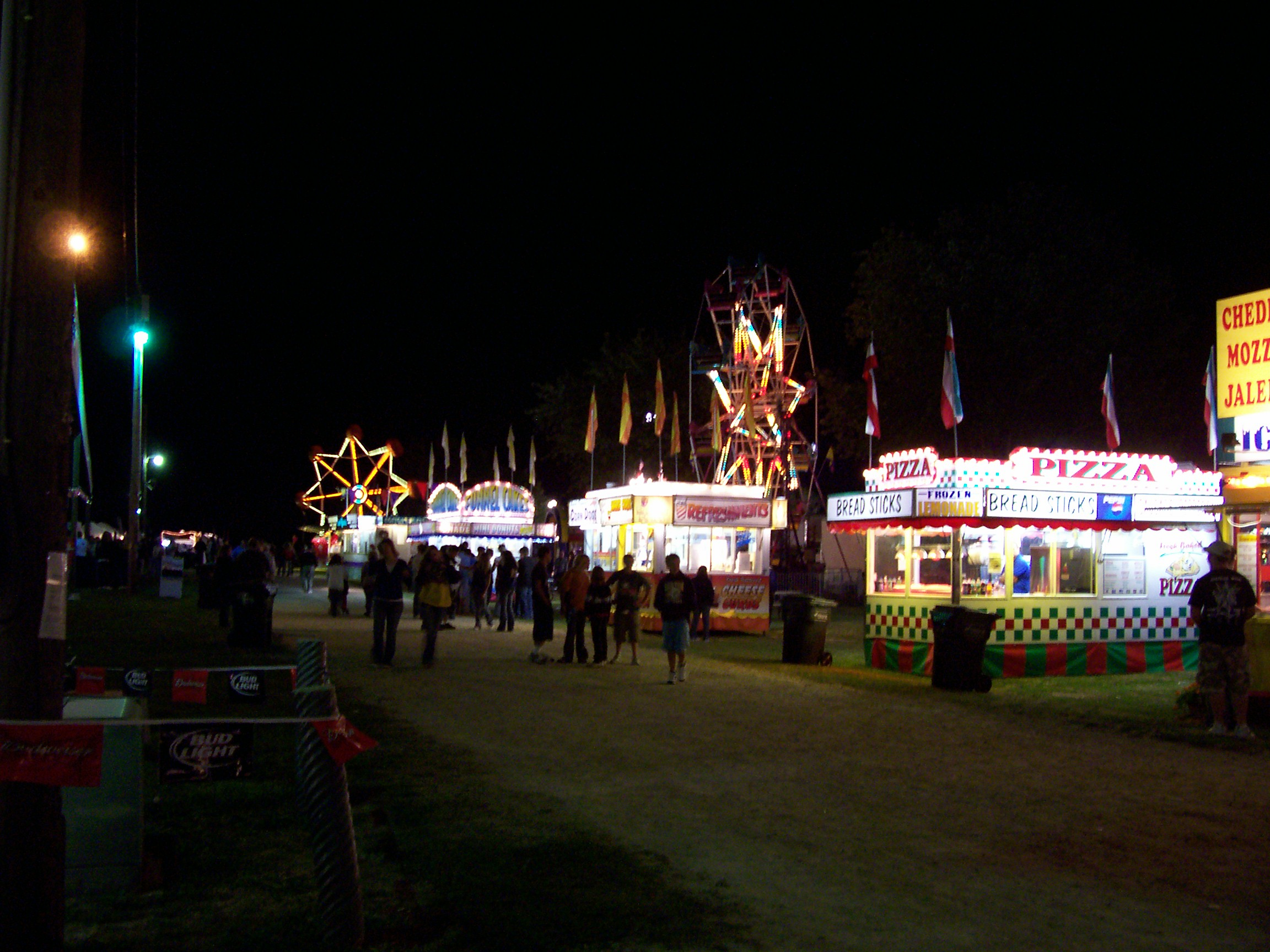 Daytime picture of the Calumet County, Wisconsin Fair in Chilton, Wisconsin, USA, taken September 1, 2006 by User:Royalbroil